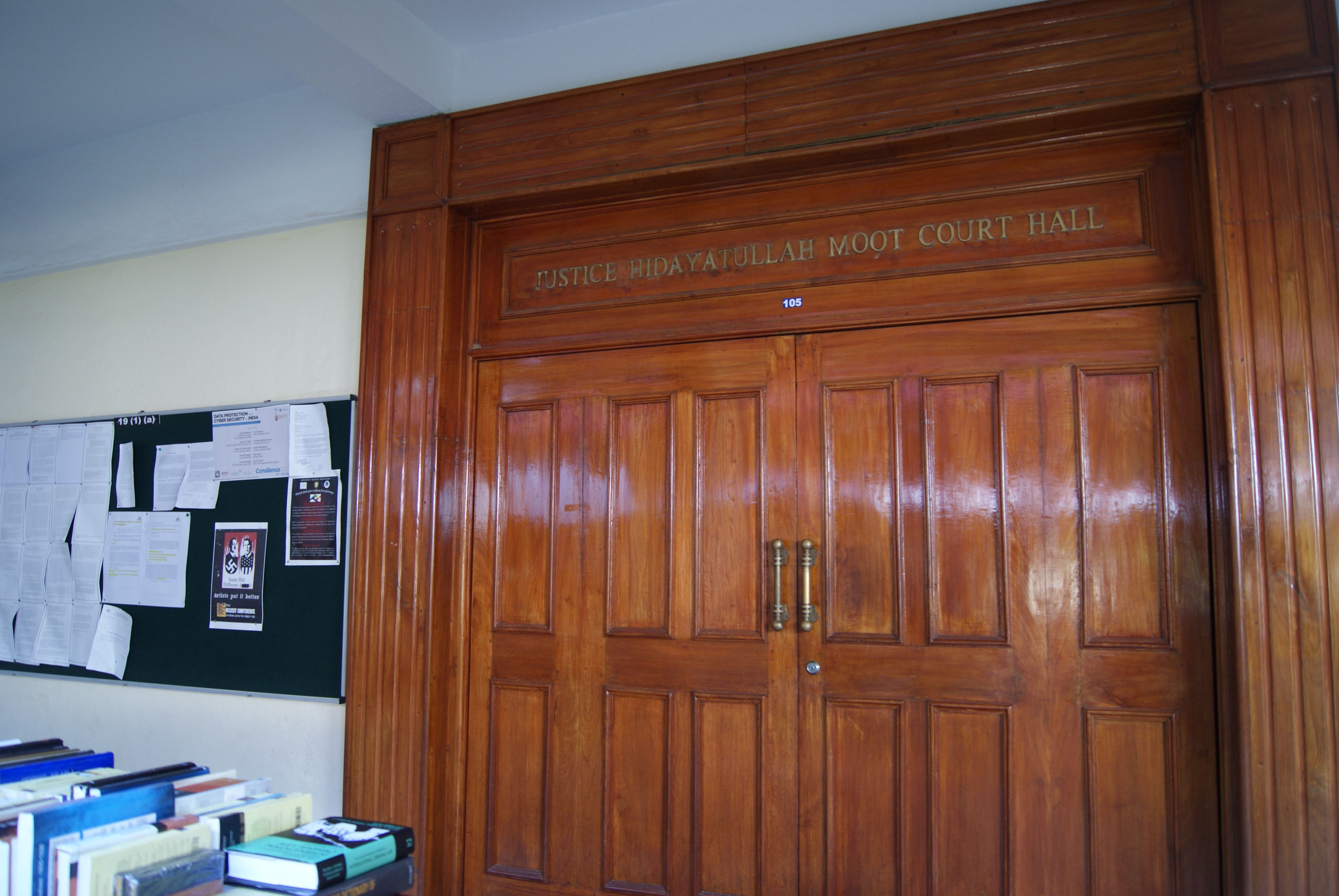 The entrance to the Justice Hidayatullah Moot Court Hall at the National Law School of India University in Bangalore, Karnataka, India. The moot court hall was named after Mohammad Hidayatullah, who was Chief Justice of India from 1968 to 1970.